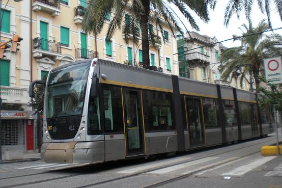 Alstom Cityway tram (06T) in Messina (Sicily).